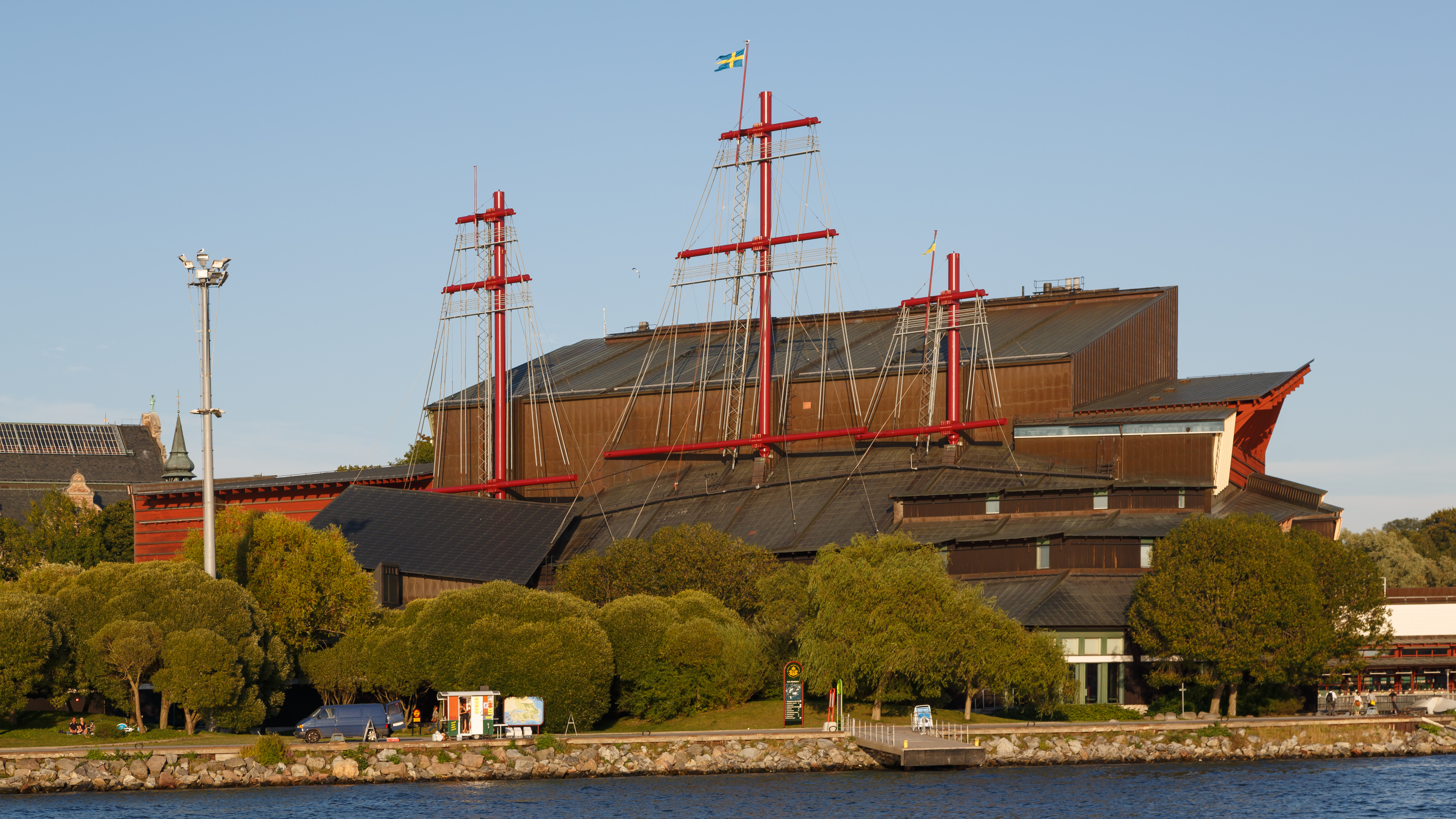 Stockholm, Sweden: The Vasa Museum from sea side